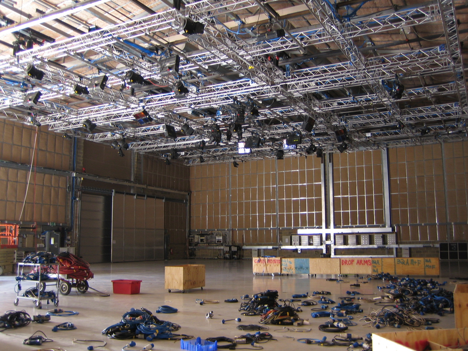 Maidstone's Studio Five is the UK's largest TV studio, apparently. Built on a tight budget, the roof was apparently not sound-proofed, so whenever it rained sound crews had trouble attempting to cut out the background noise of the outside elements.